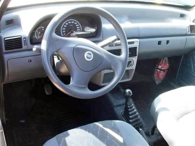 Interior of second facelifted Brazilian market Fiat Mille/Uno